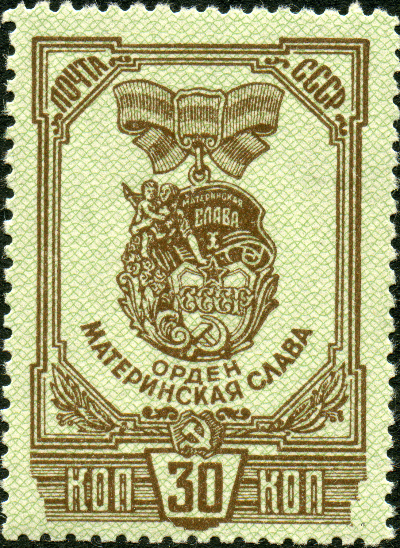 A USSR stamp, Awards of the Soviet Union